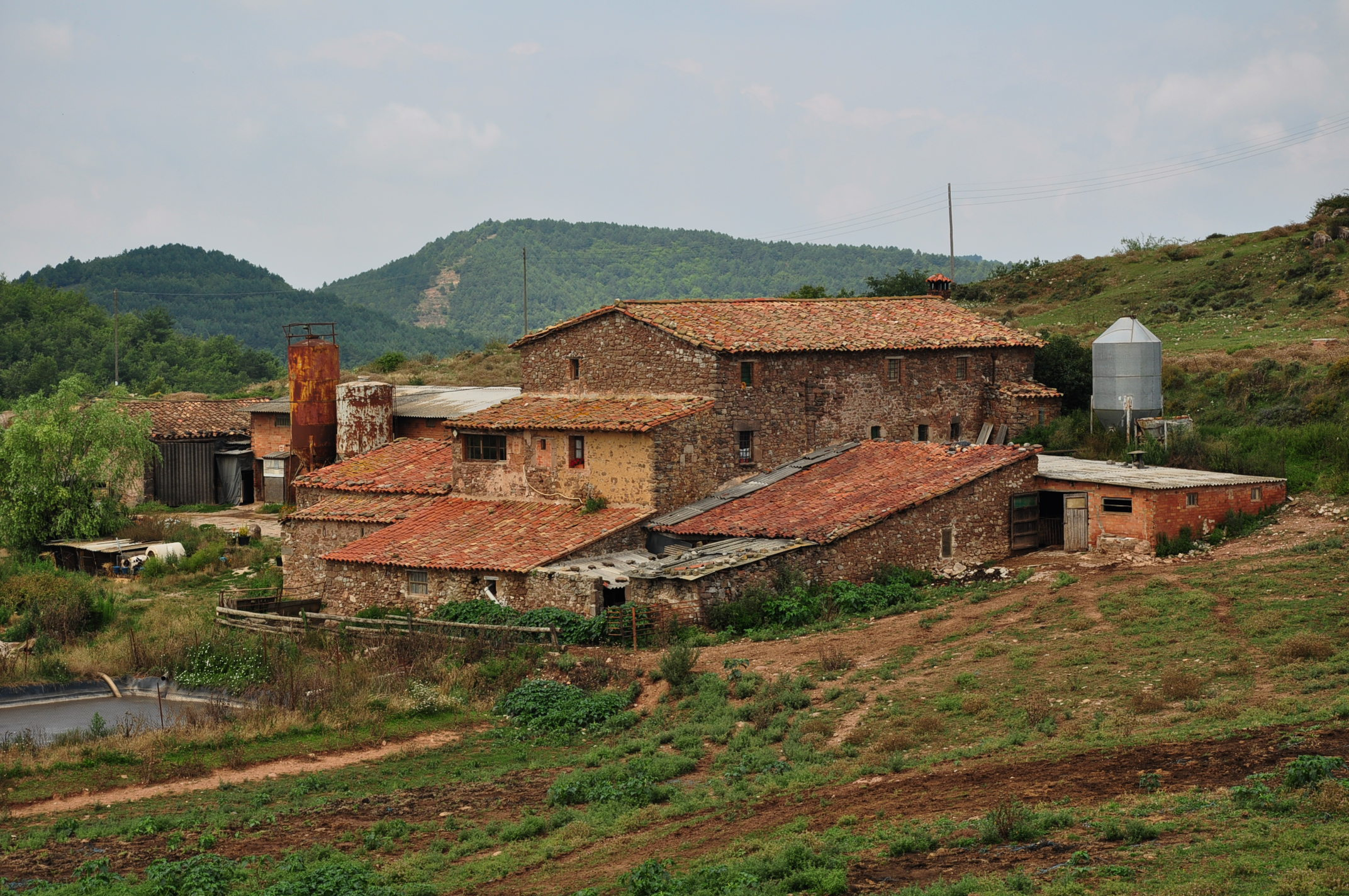 An isolated farm (Mas Bellver) near Collsuspina (Osona, Catalonia, Spain).